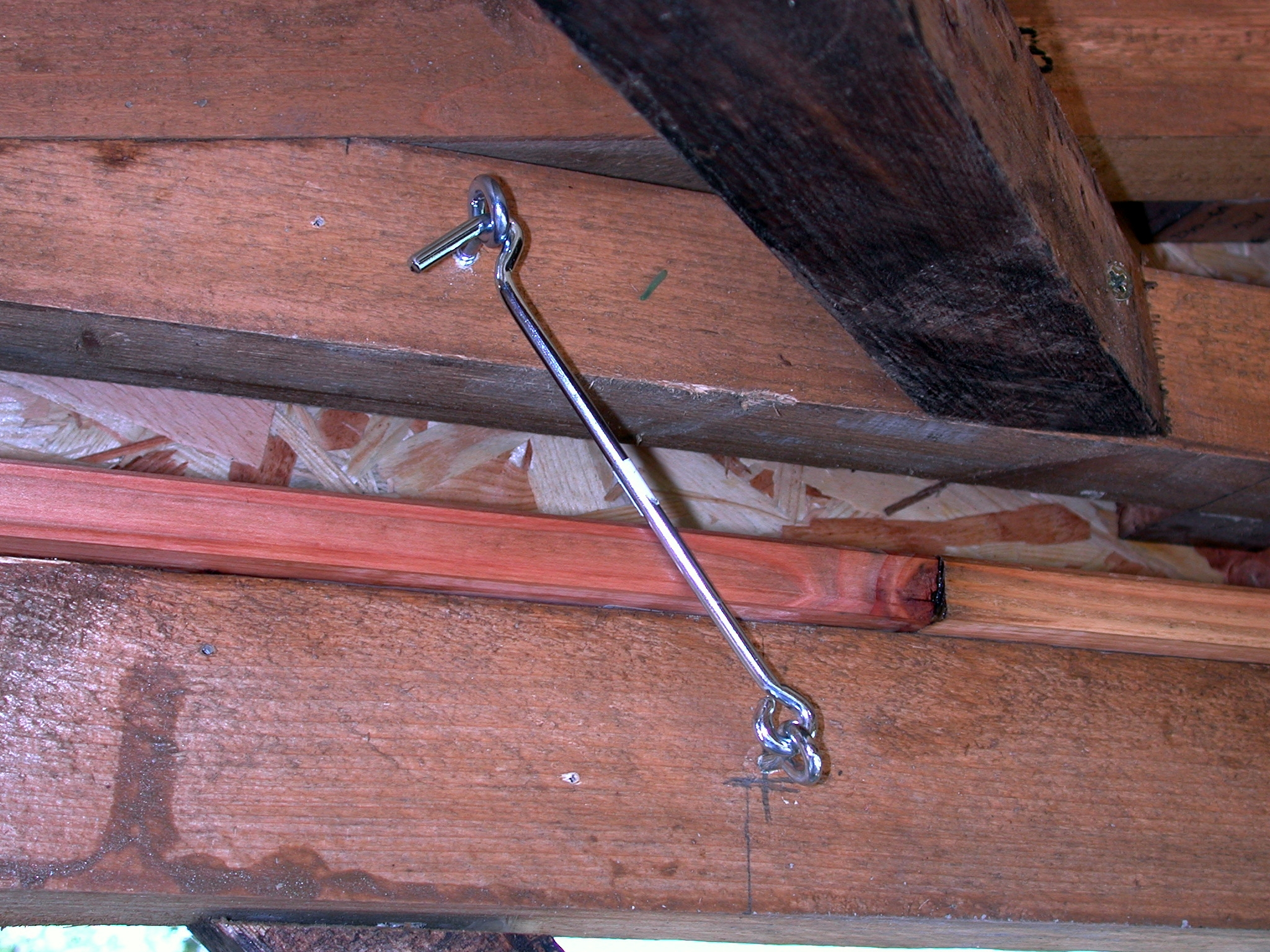 Gate hook locking a movable roof on rollers